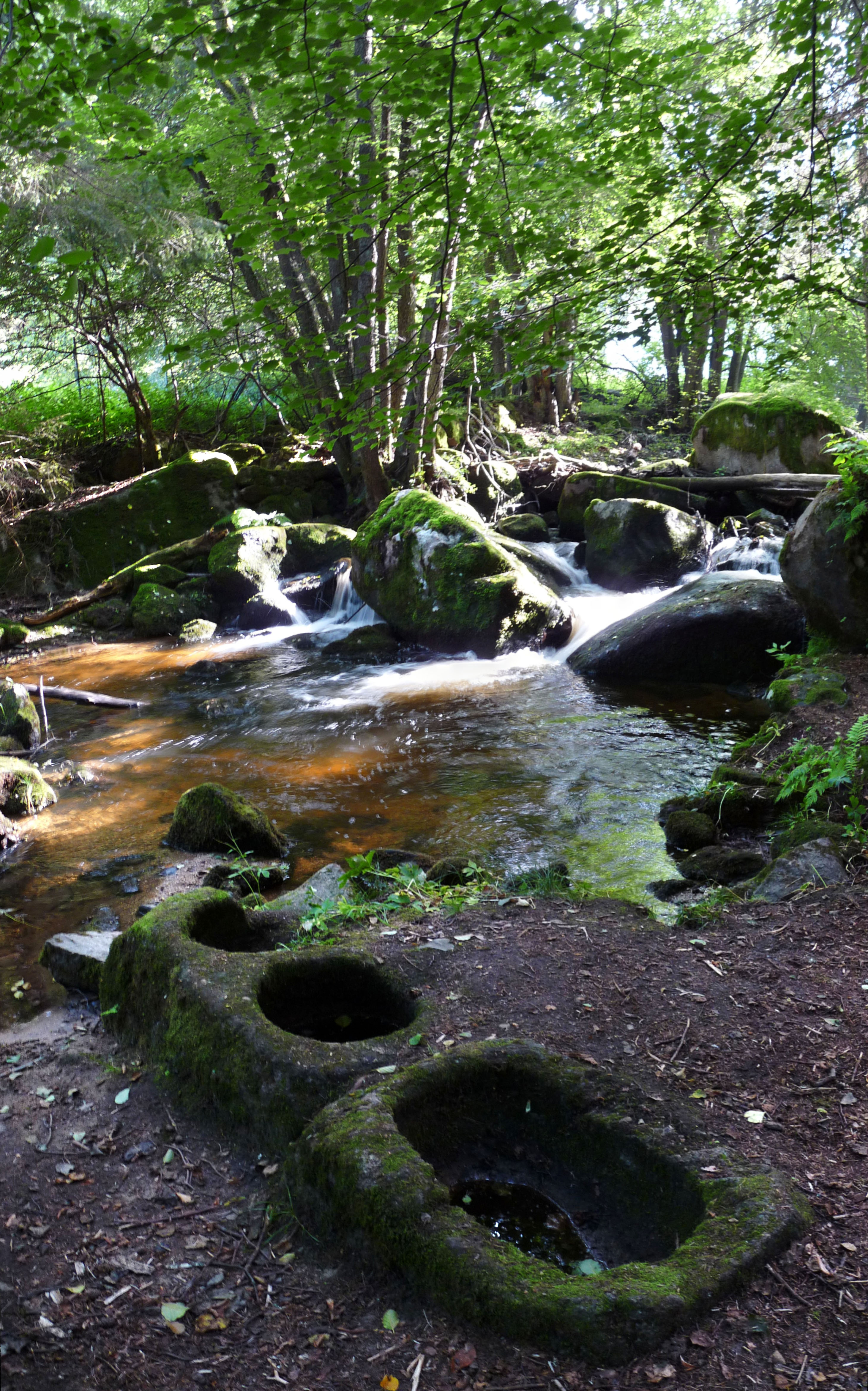 Educational trail Opatská stezka (Abbot Trail) along the Menší Vltavice River in Vyšší Brod, Český Krumlov District, Czech Republic.